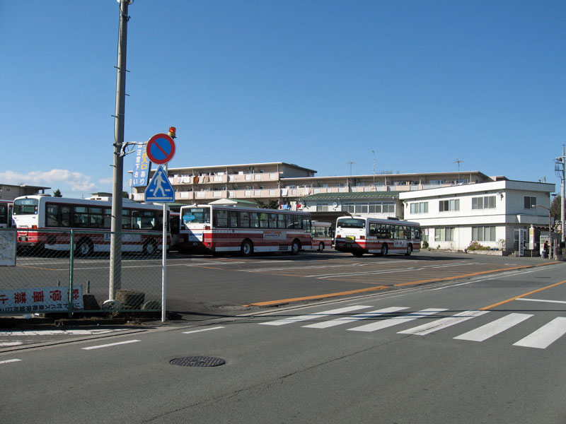 Tachikawa Bus Haijima Depot, Akishima, Tokyo, Japan